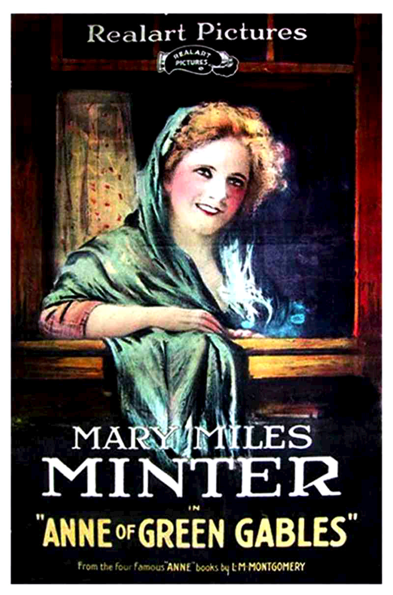 Poster for Anne of Green Gables. ©1919 Realart Pictures